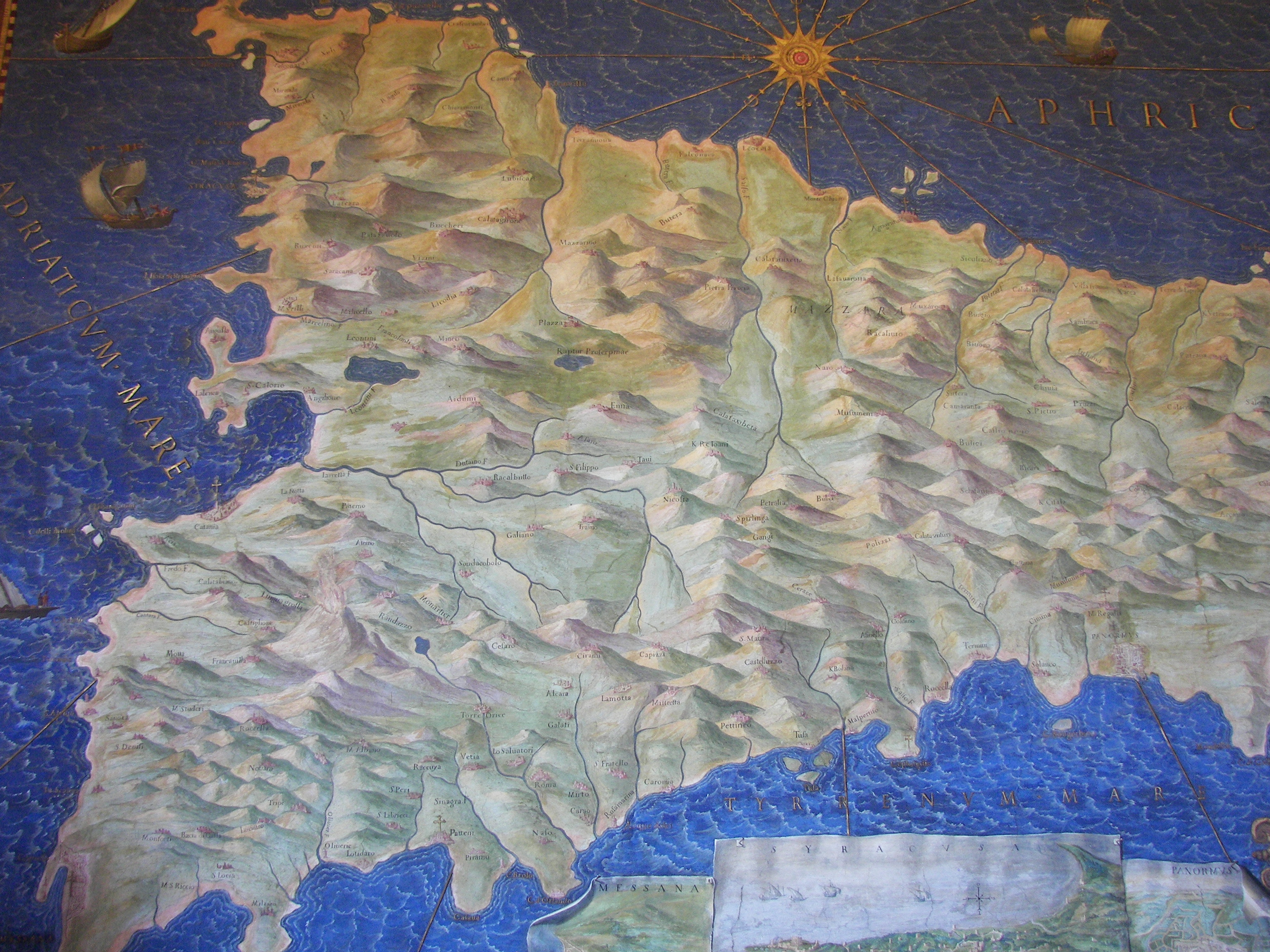 Wall map of Sicilia in the Galleria delle carte geografiche (Gallery of Maps) in the Vatican Museums. The map is unorthodox in that it is rotated approximately 180 degrees. Catania, on the east coast, is shown on the left, and Agrigento, on the south coast, is shown towards the top-right.